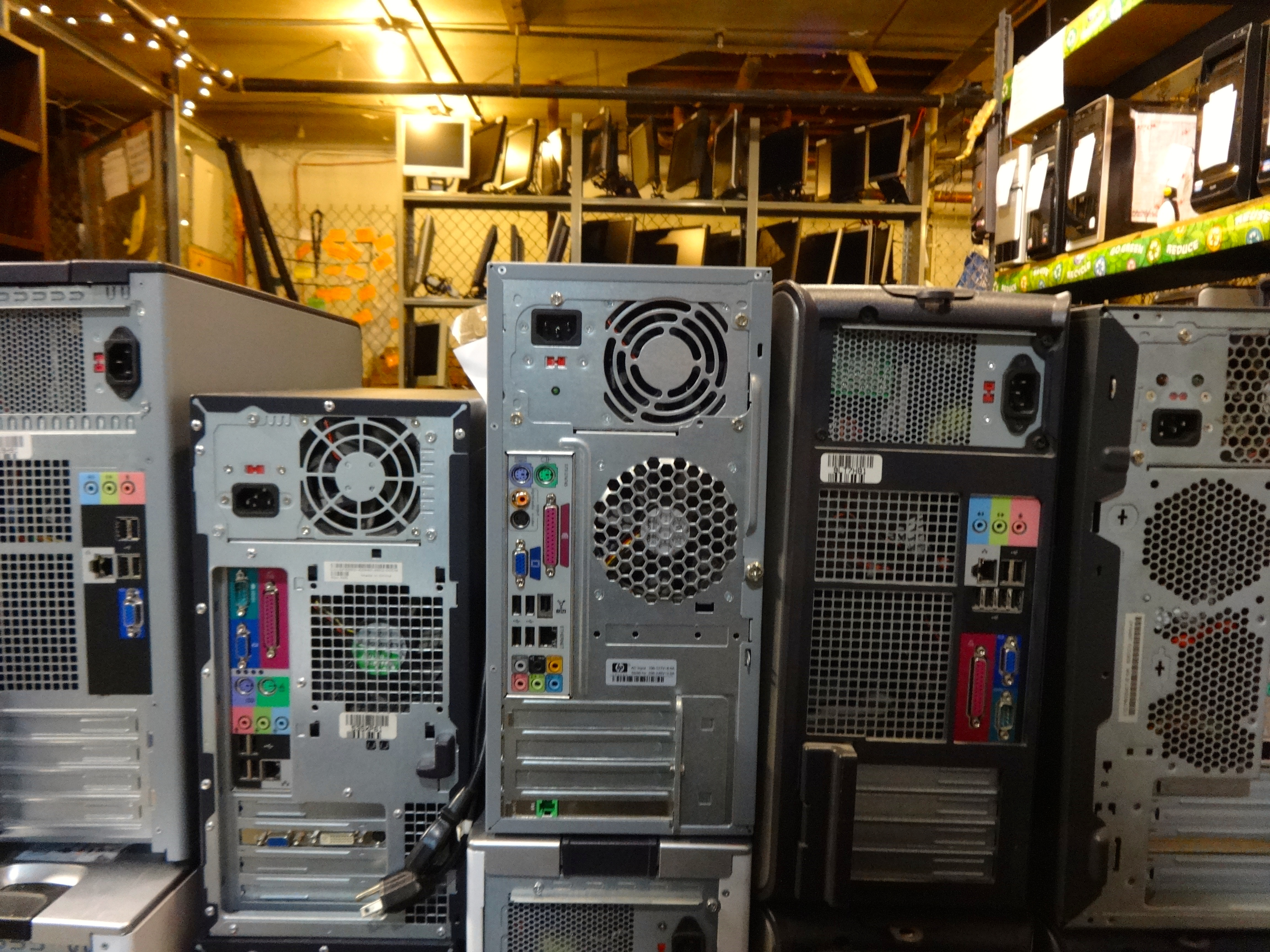 Computers! @ Free Geek Chicago